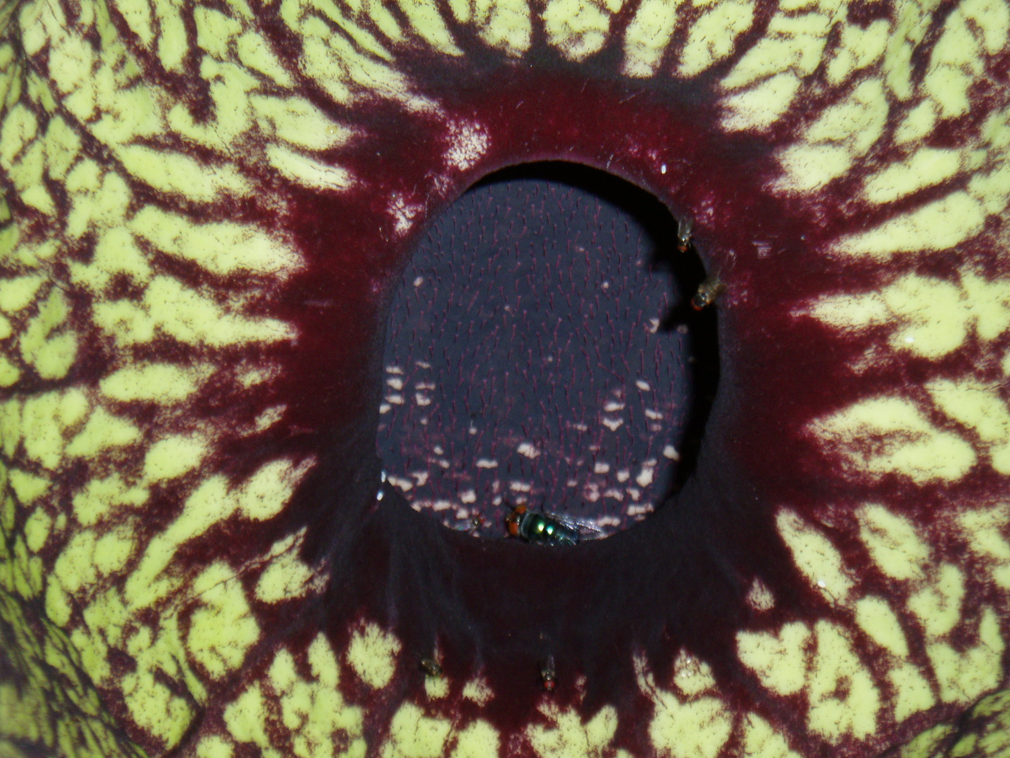 Image taken at Butterfly World detail of Pelican Flower Aristolochia grandiflora with inhabitants